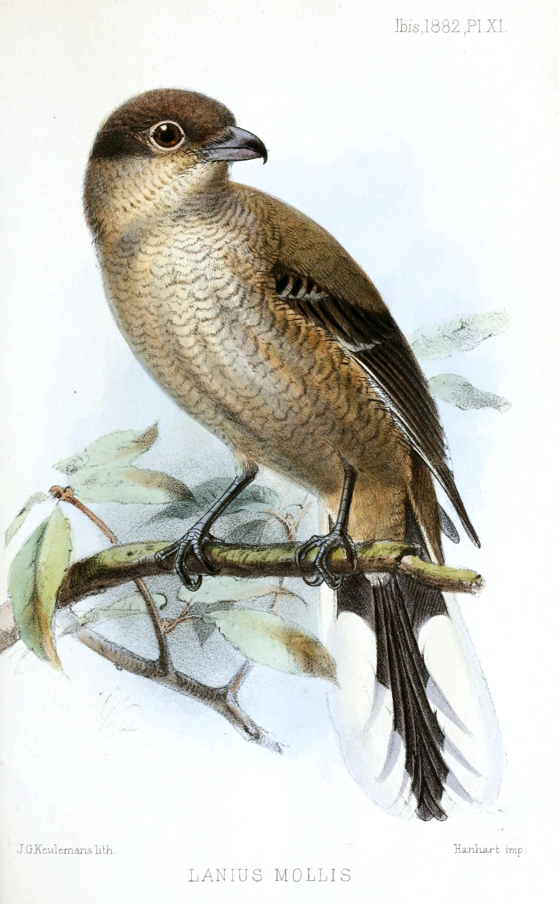 "Lanius mollis" = Lanius borealis mollis (subspecies of Northern Shrike, from central Asia)